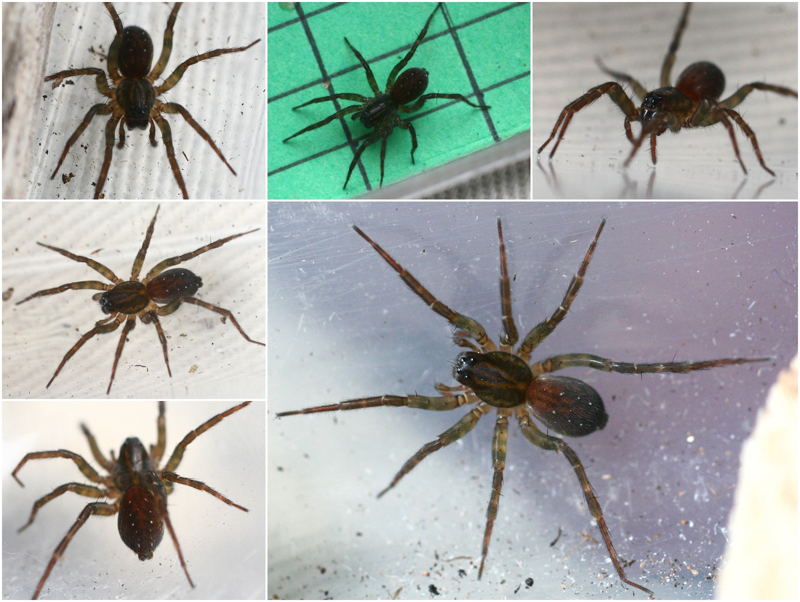 Pirata cf. hygrophilus (Lycosidae). Bricket Wood Common, Hertfordshire, 06.05.2010. More Info... Species Summary from Spider Recording Scheme Map from NBN Gateway Pavouci CZ Jorgen Lissner - female Spiderling.de - male palps, female with eggs